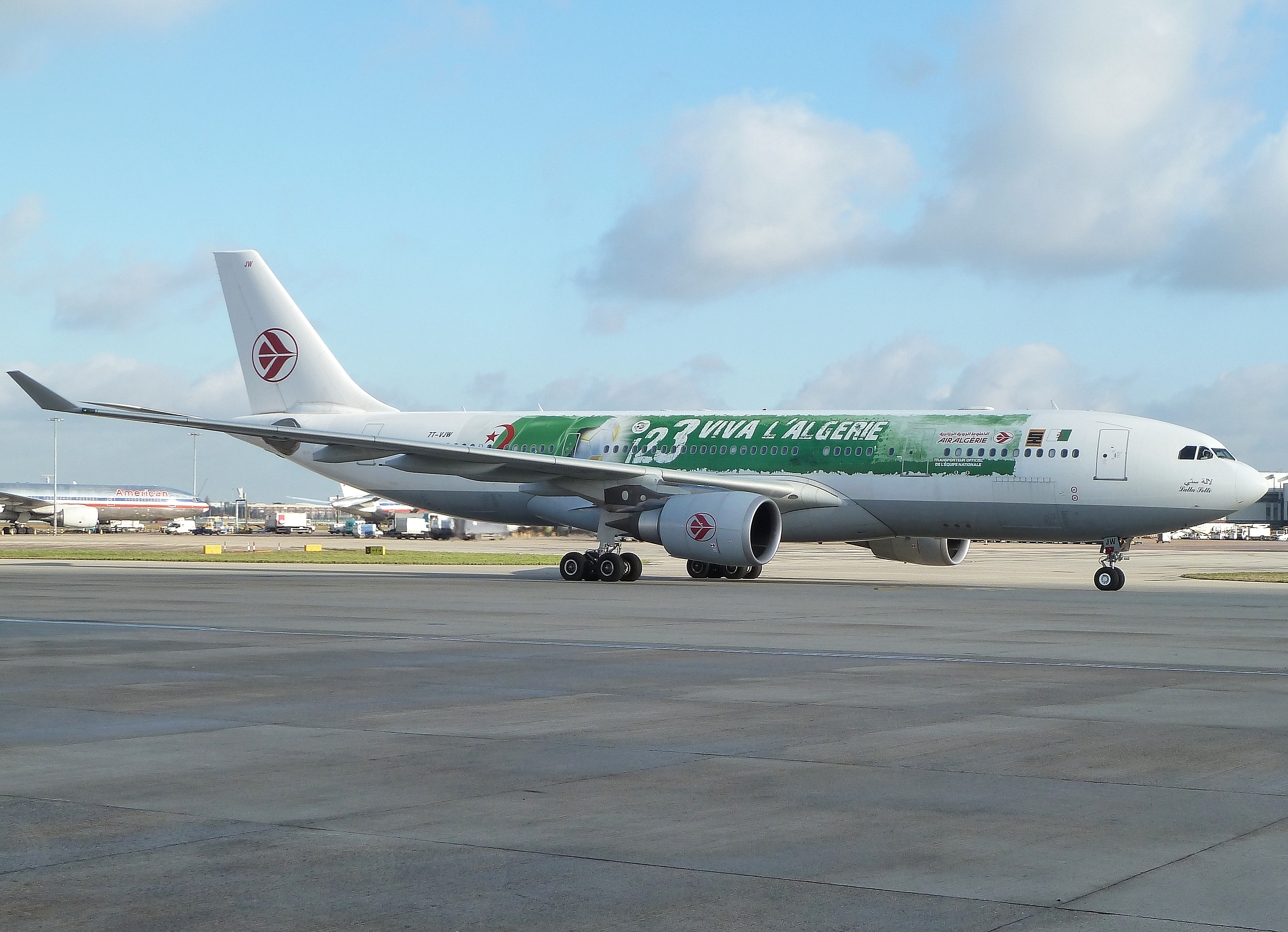 7T-VJW A332 Air Algerie sporting a football scheme taxying past the fire station.